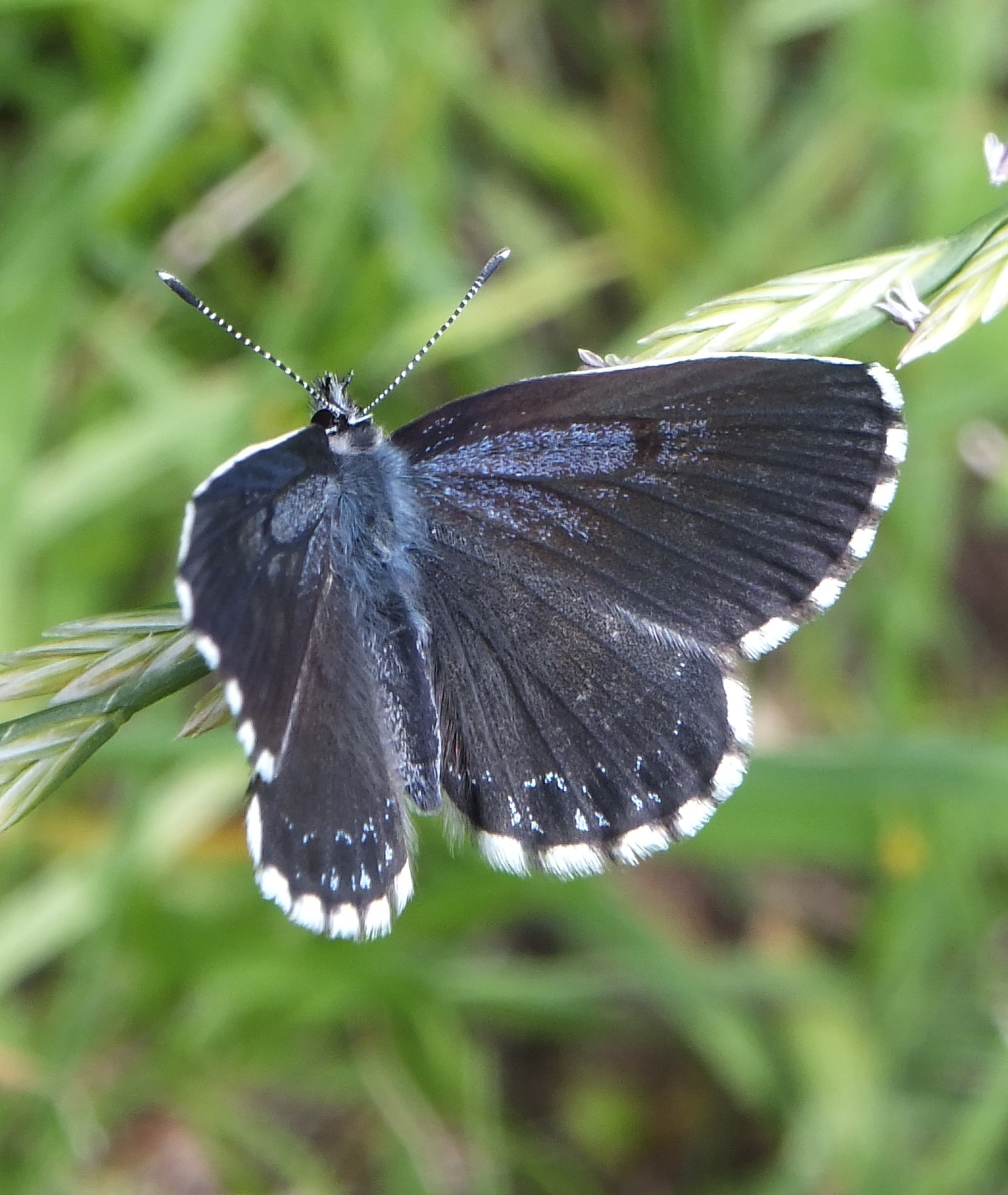 A butterfly of the species Scolitantides orion on a spike